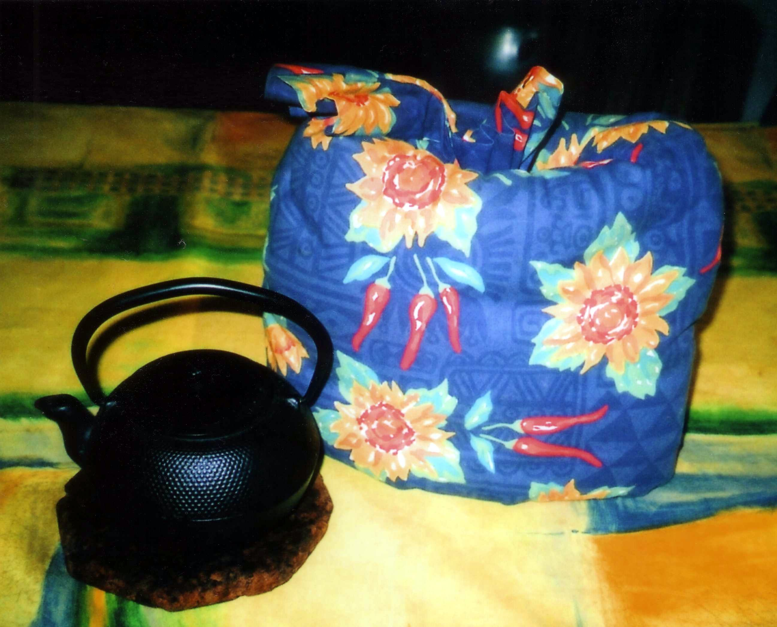 Tea-cosy produced in Danemark in the 1990s and a metal teapot